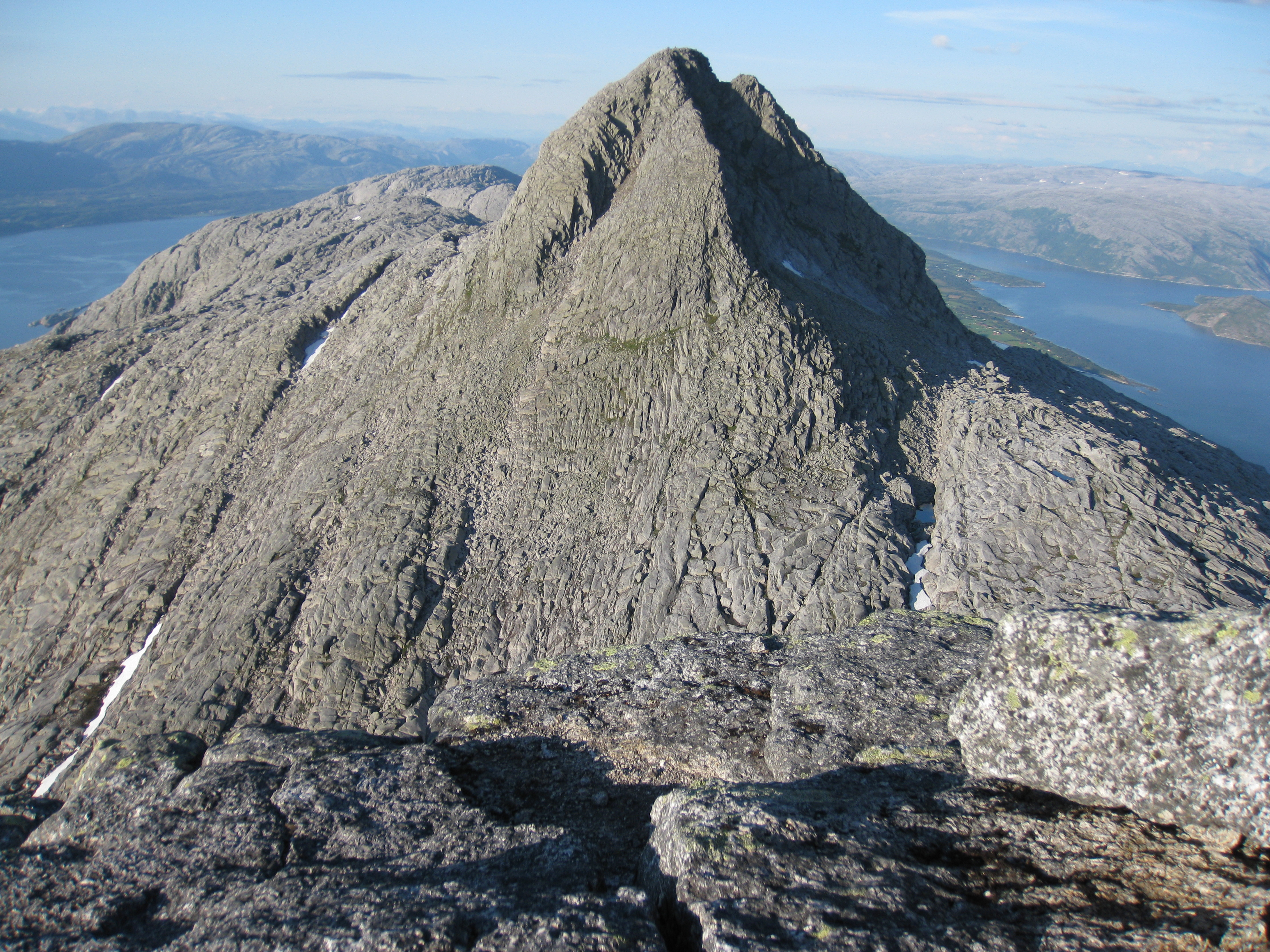 Botnkrona seen from Grytfoten.